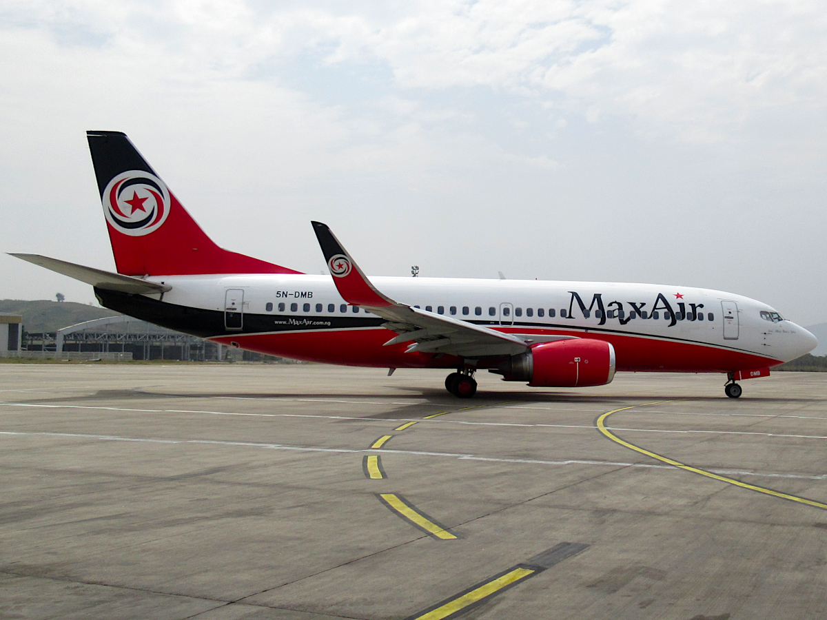 MaxAir Boeing 737 at Abuja Airport